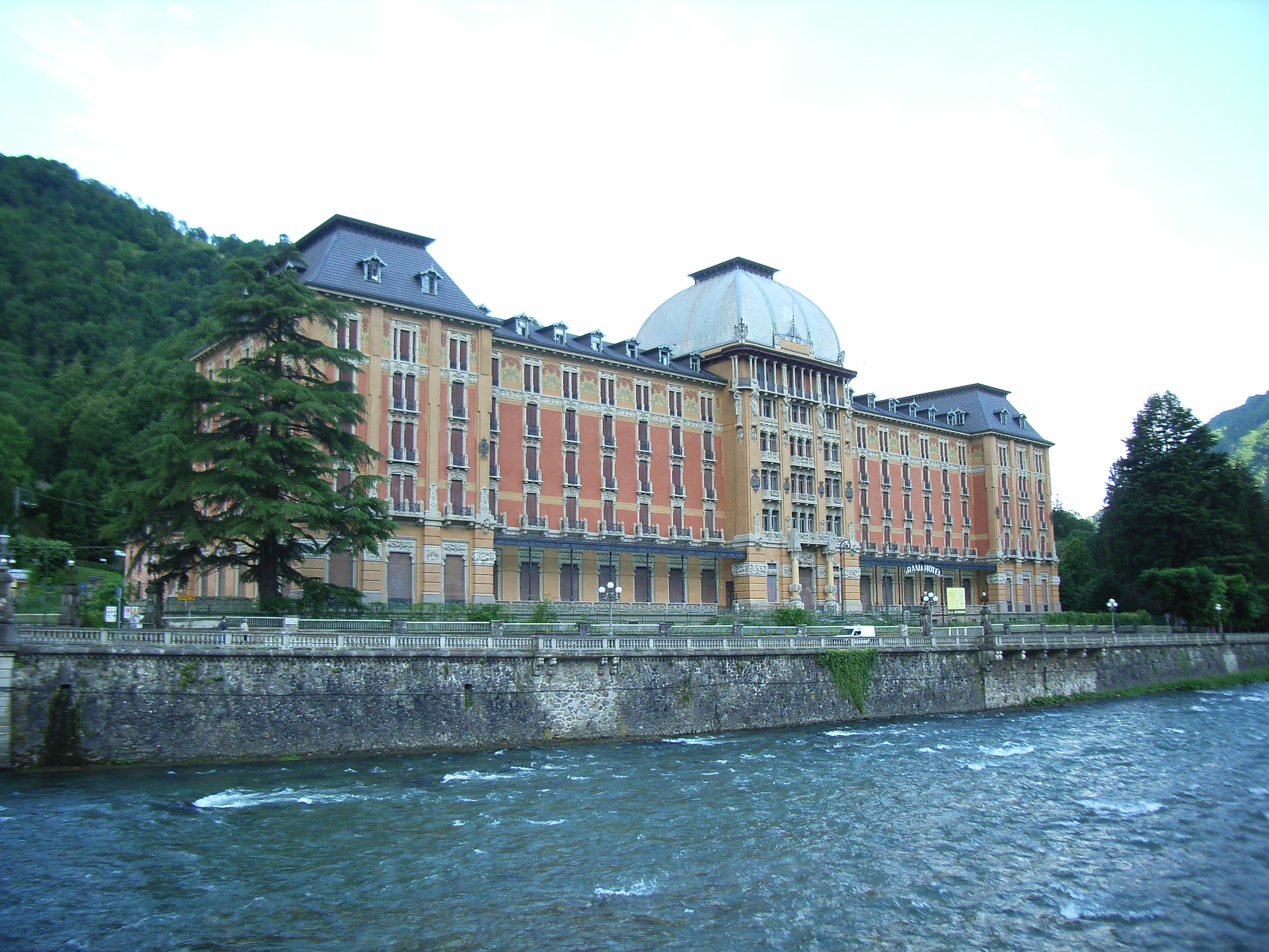 The now abandoned Grand Hotel - San Pelligrino Terme